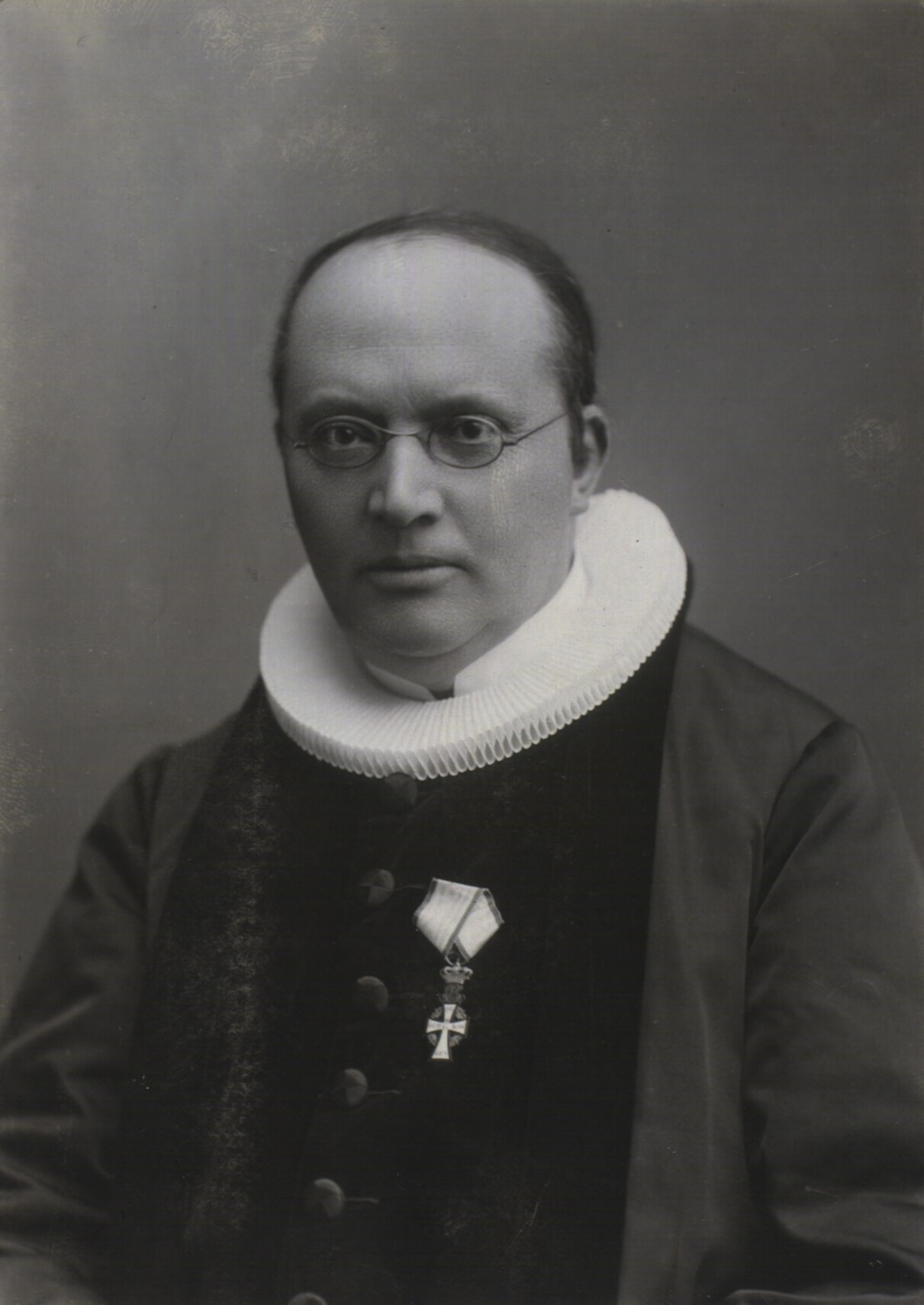 Hans Valdemar Sthyr (1838-1905), Danish bishop, professor at the University of Copenhagen, politician, MP, Minister of Education and Church Minister